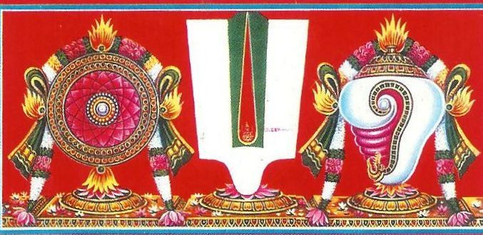 Thengalai Thiruman, Holy Mark used on the forehead of Thenkalai or Thengalai Iyyengars and Sri Vaishnavas